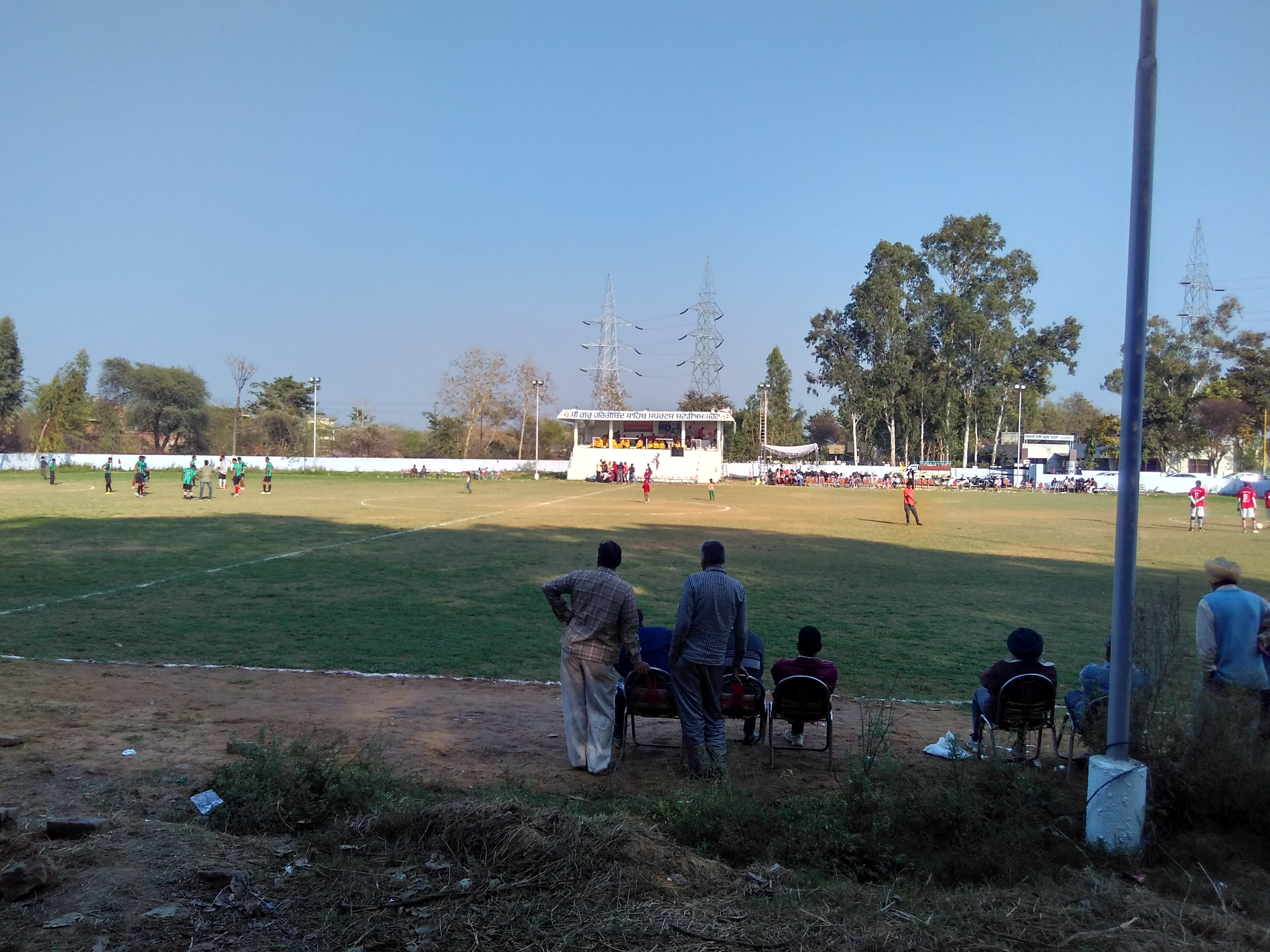 ਟੂਰਨਾਮੈਂਟ ਪਿੰਡ ਮੇਹਟਾਂ